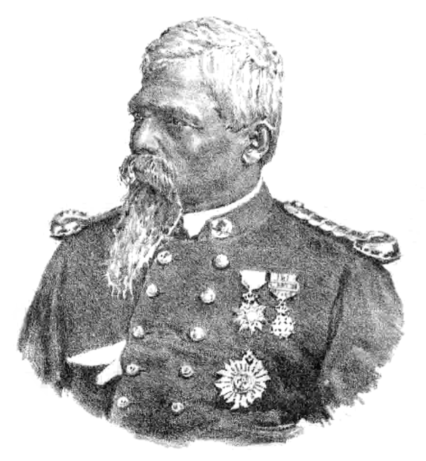 Photo of Manuel António de Sousa taken in 1890